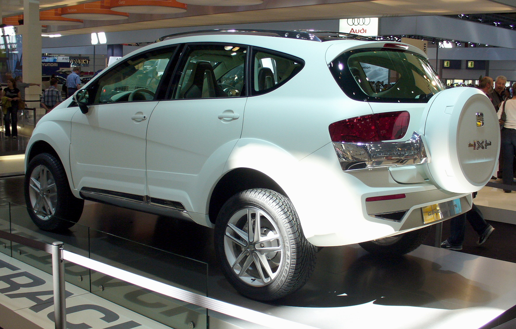 Seat Altea Freetrack